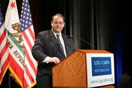 Marc Cherry at LCR event.